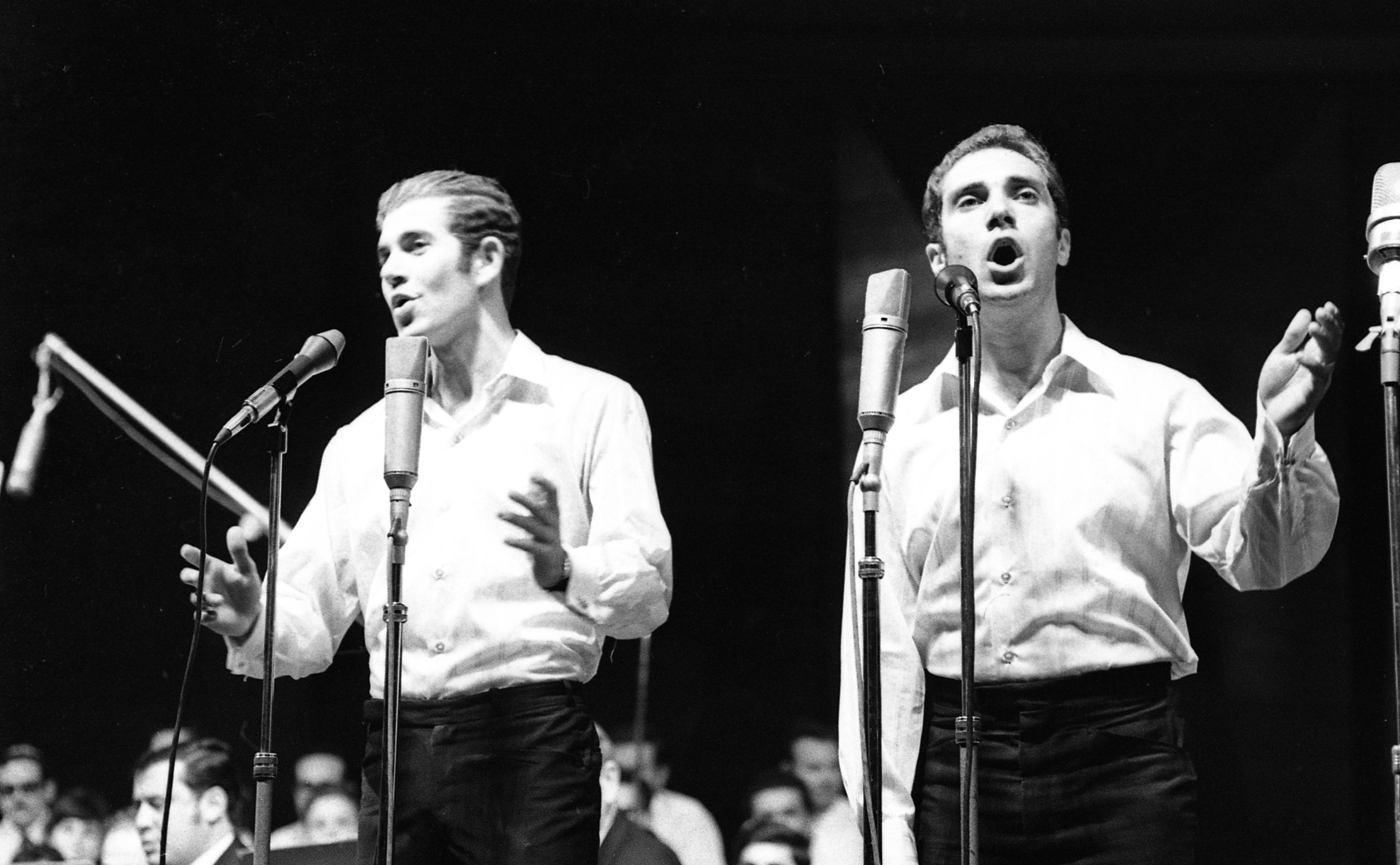 The First Hasidic Festival.